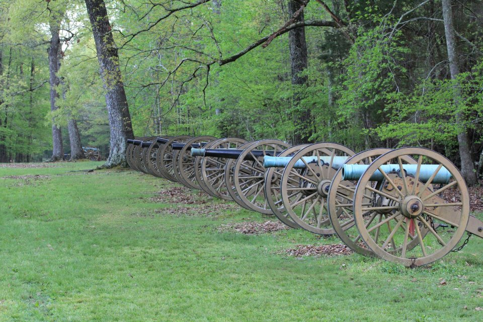 Ruggles' Shiloh National Militray Park